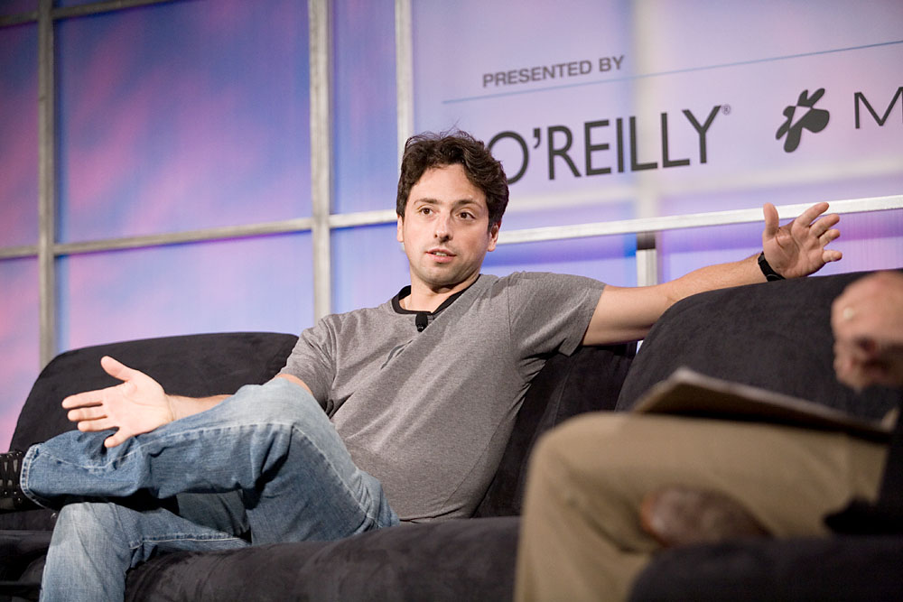 Sergey Brin at the Web 2.0 Conference 2005.